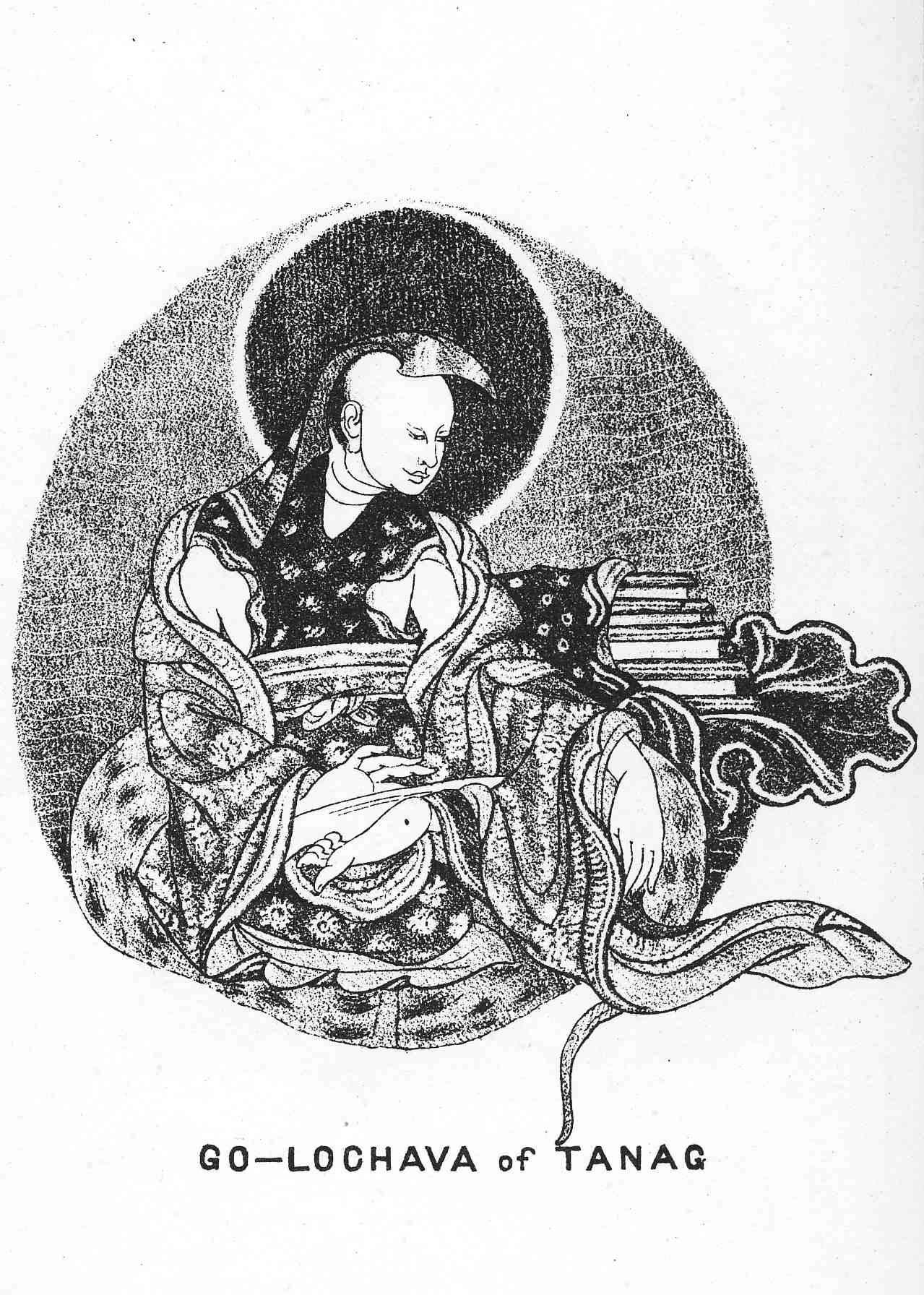 Image taken from Sarat Chandra Das' "The Lives of the Panchhen—Rinpoches or Tas'i Lamas" first published in The Journal of the Asiatic Society of Bengal, Vol. LI (1882), so it is in the public domain. John Hill 23:55, 28 September 2007 (UTC)